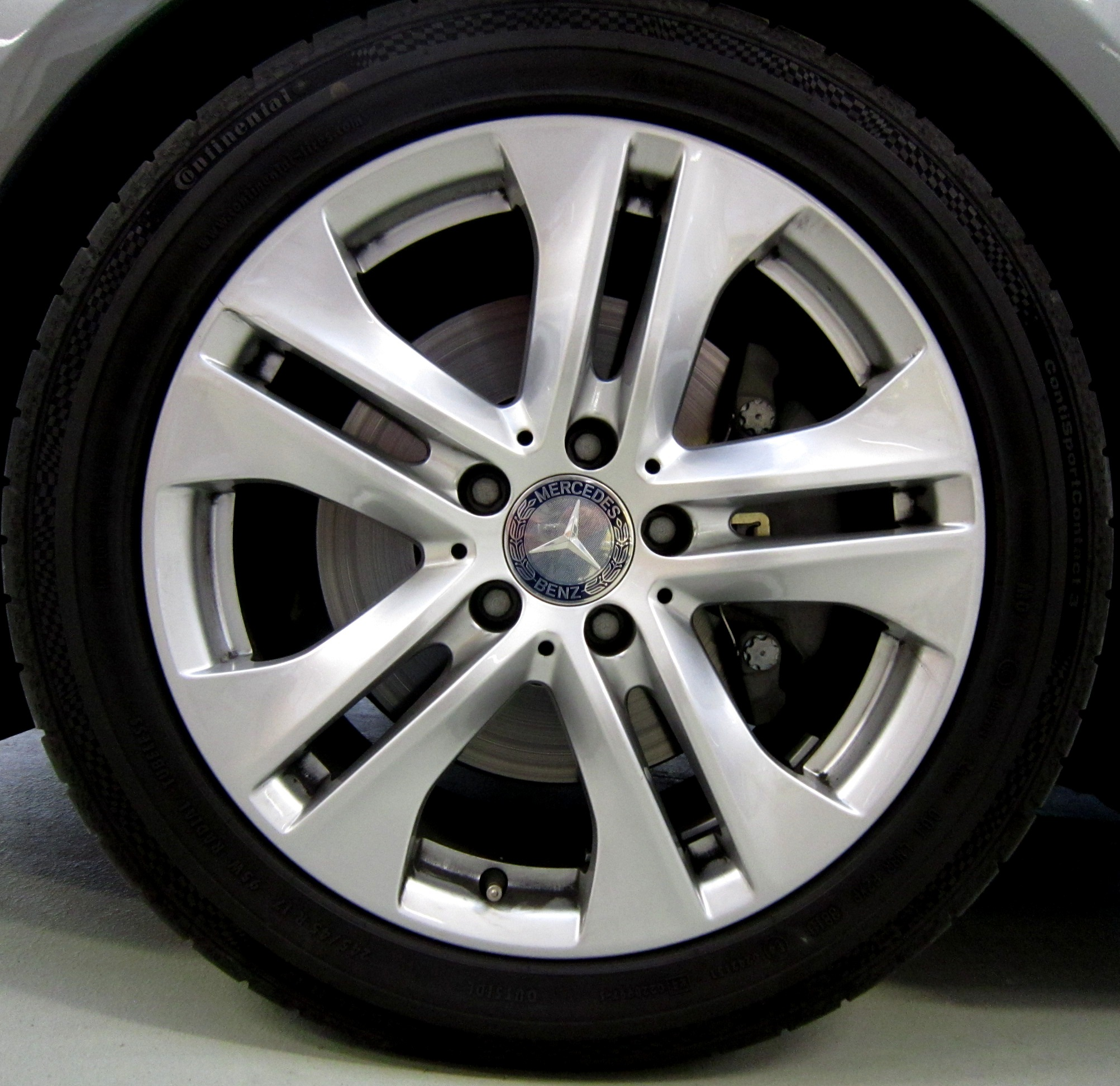 2010 Mercedes-Benz E 250 CDI BlueEFFICIENCY (W 212) Avantgarde sedan. Photographed in New South Wales, Australia. Vehicle registration enquiry resultsJurisdictionVictoriaRegistrationYBK205Chassis codeWDD2120032A339849Engine code65192430377006Compliance date2010-11Year of manufacture2010